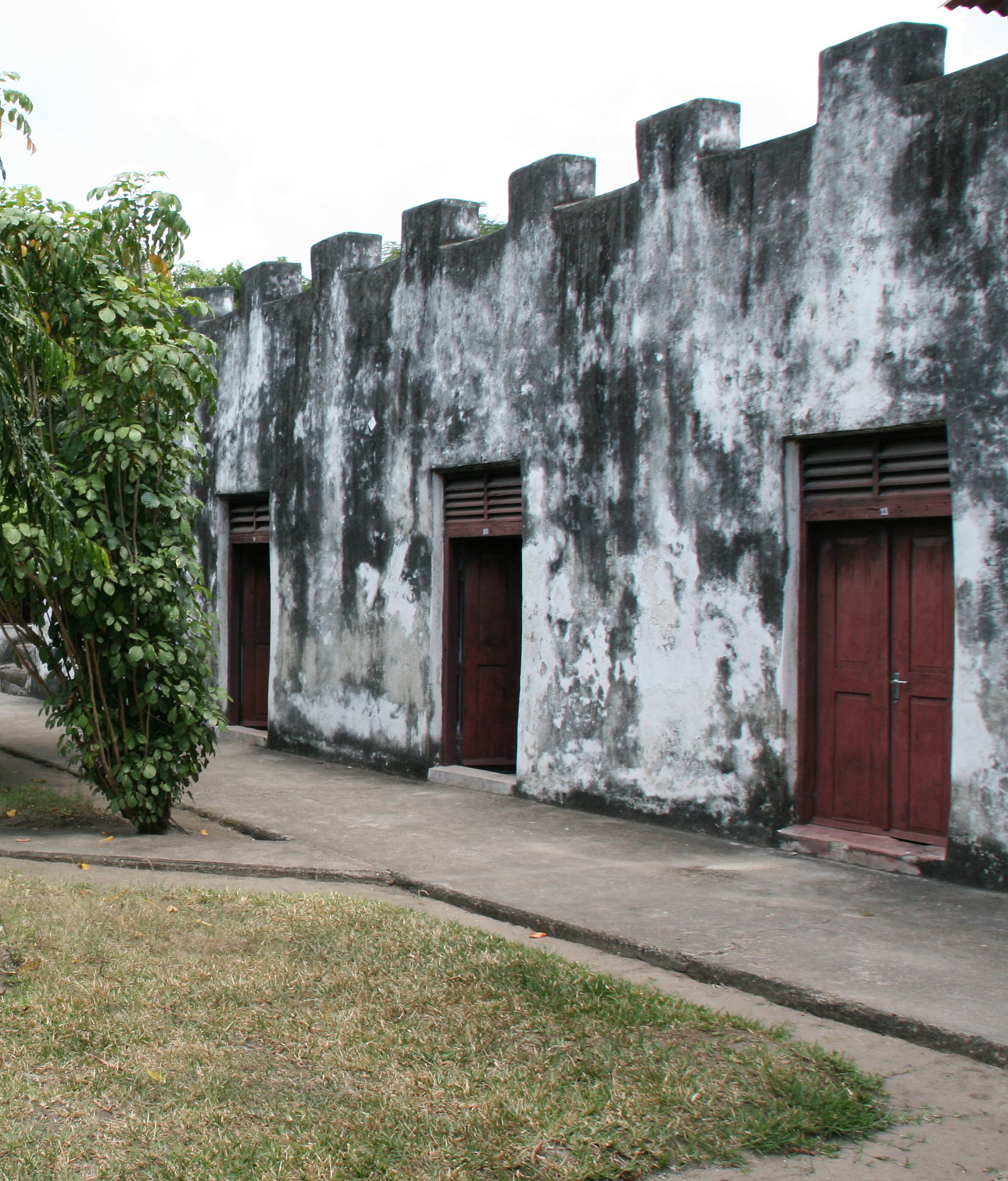 19th Century German garrison of Bagamoyo, Tanzania